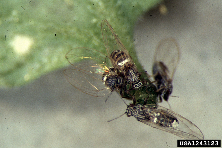 Paratrioza cockerelli , Adults dispersing from tip of plant [tomato (Lycopersicon esculentum Mill.)]